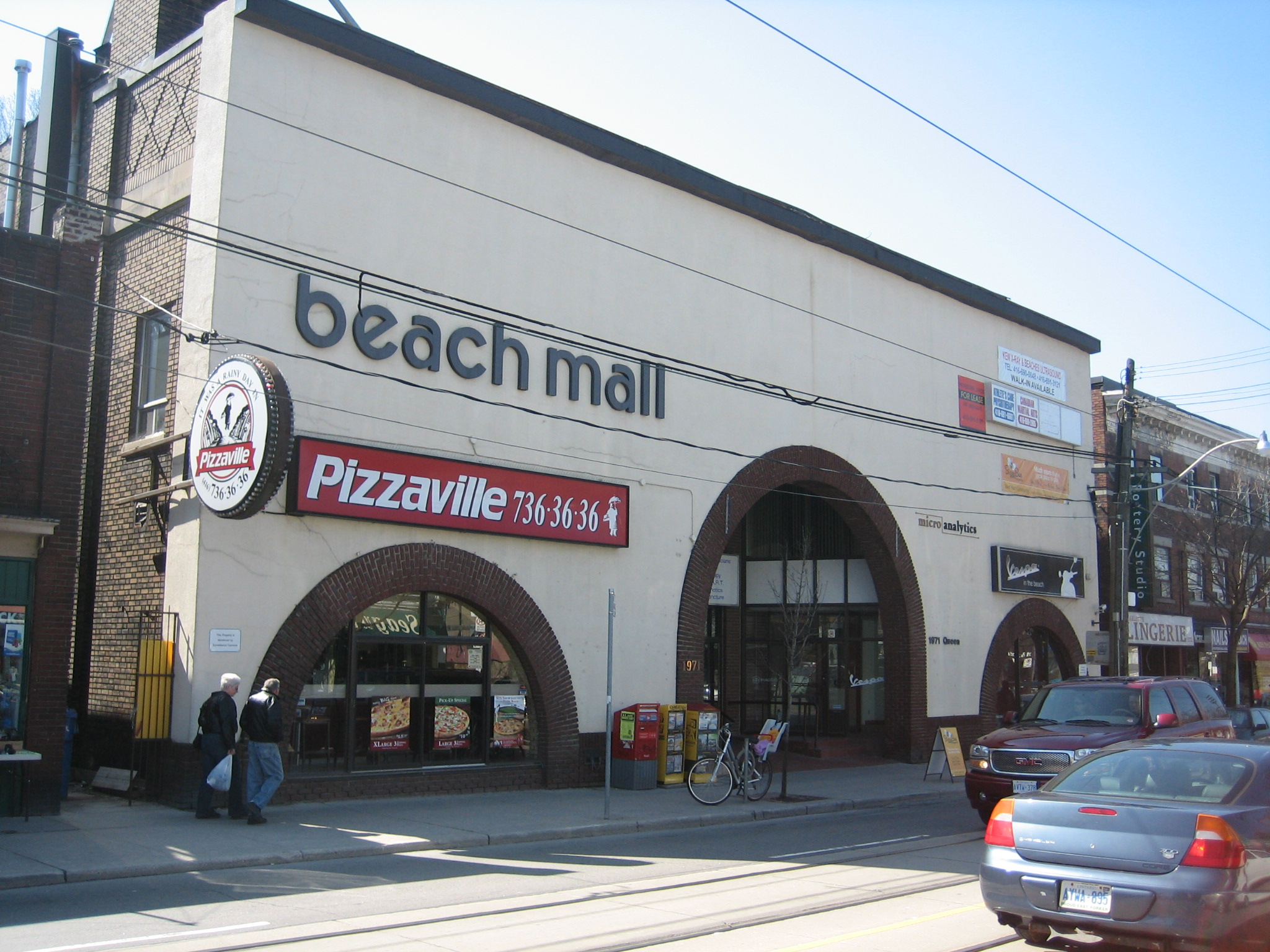 Former Beach Theatre, today the Beach Mall